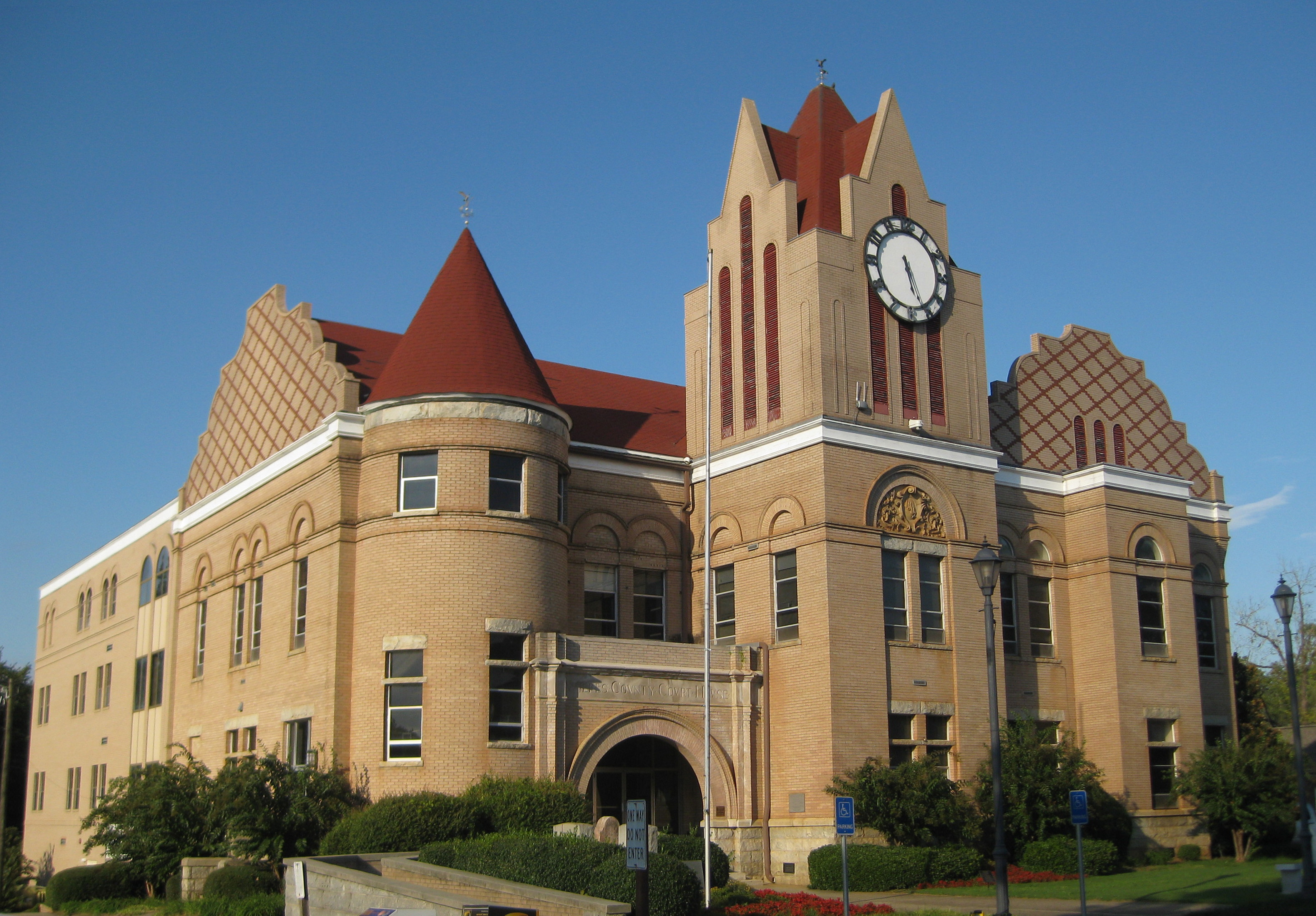 The current courthouse for Wilkes County, Georgia was completed in 1904 on the downtown square in Washington, Georgia, and originally included a taller, more detailed clock tower and roofline. A 1958 fire ravaged the top of the courthouse, leaving the building flat-topped for decades until the current roof and clock tower were added in 1989.